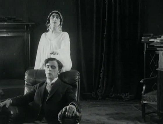 Vitold Polonskij and Vera Karalli in Evgenij Bauer's film Posle smerti (1915)